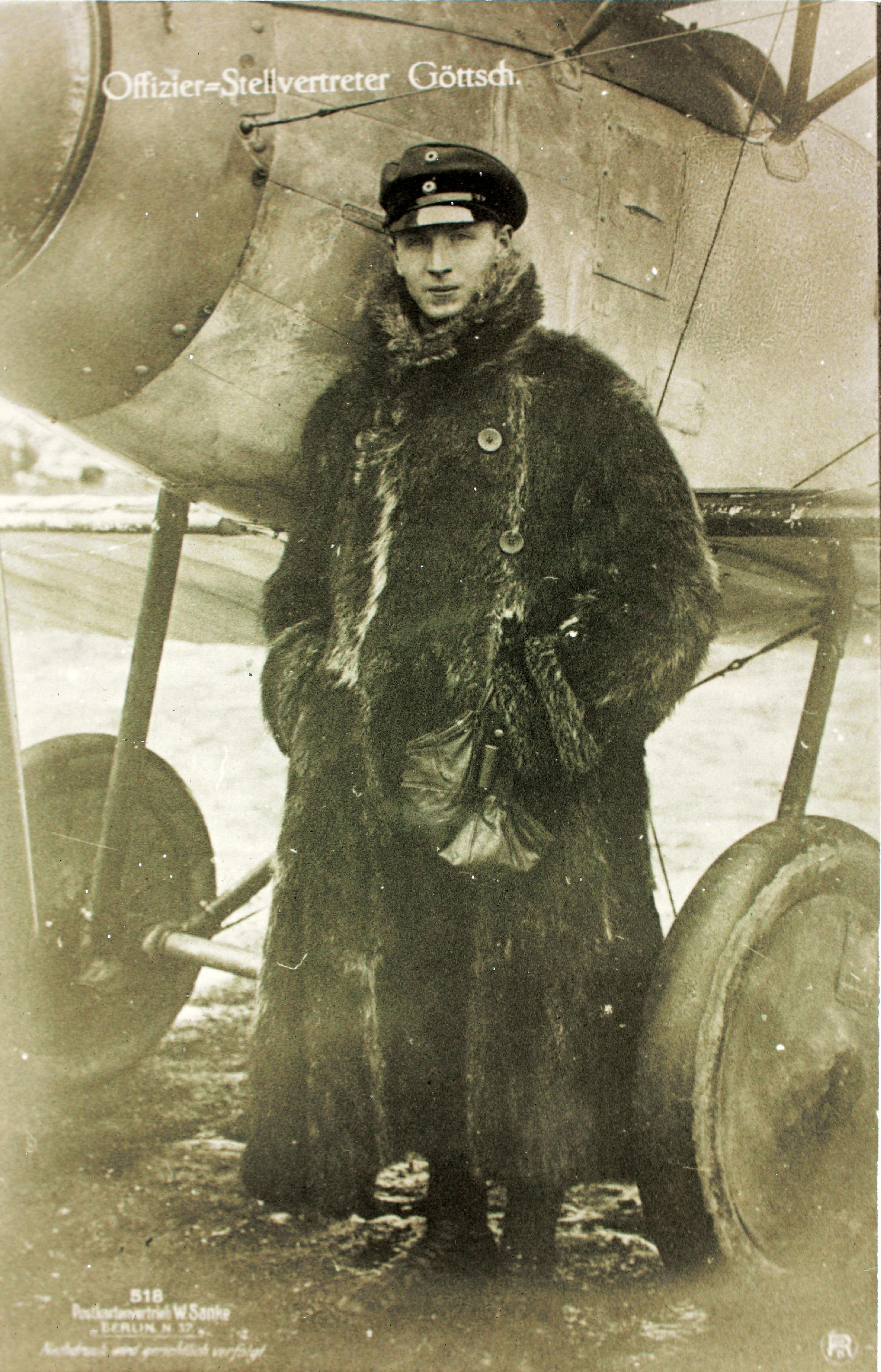 Walter Göttsch Catalog #: 10_0017250 Title: World War One German Aviator Göttsch of Jasta 8 Date: 1914-1918 Additional Information: World War One German Aviator Göttsch of Jasta 8 Tags: World War One German Aviator Repository: San Diego Air and Space Museum Archive